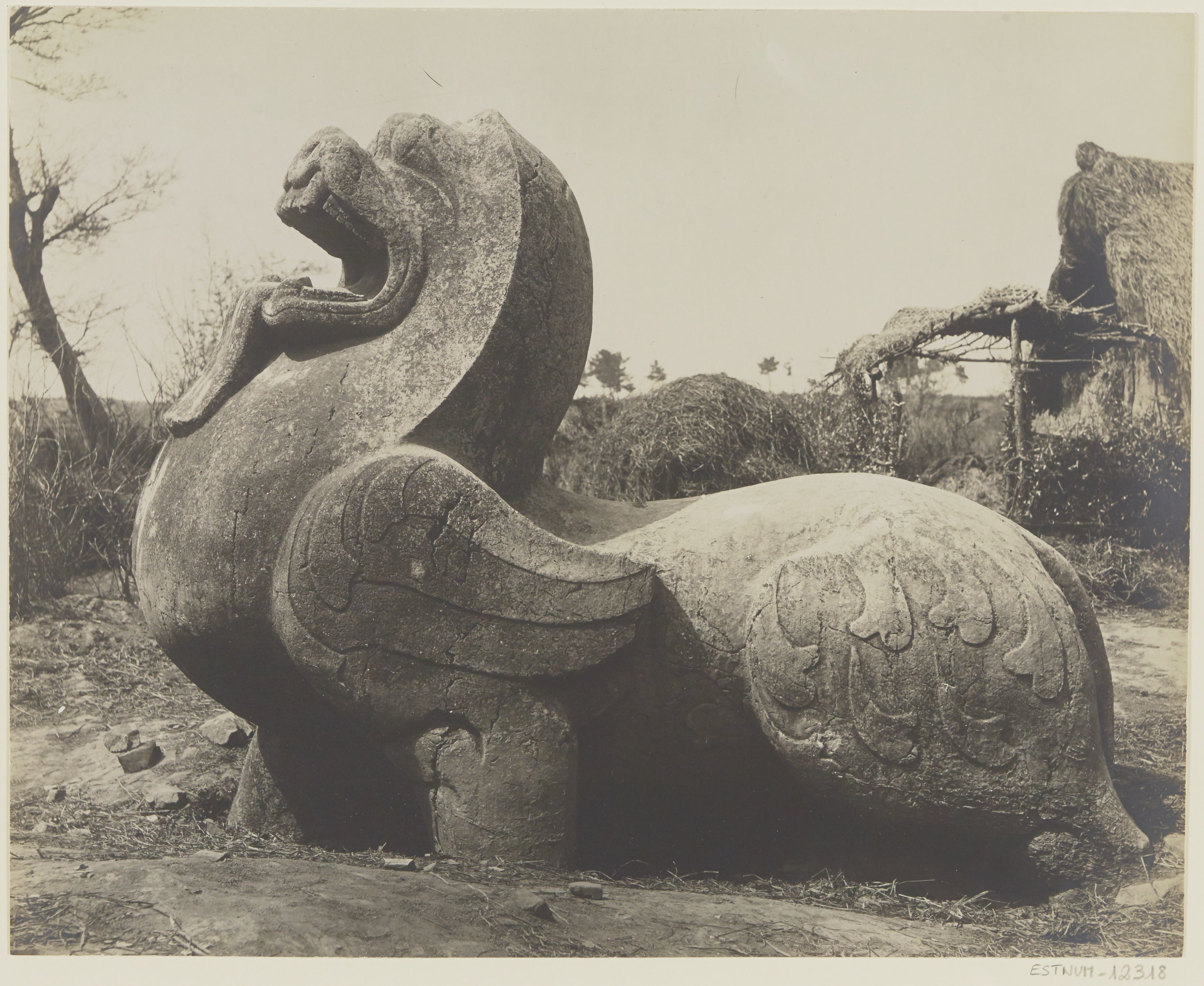 Winged lion at the right side of the Xiao Xiu Mausoleum near Nanjing